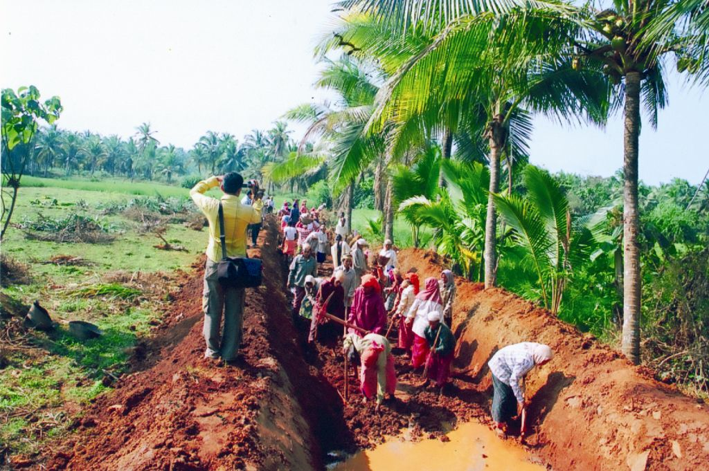 Author = Rajankila